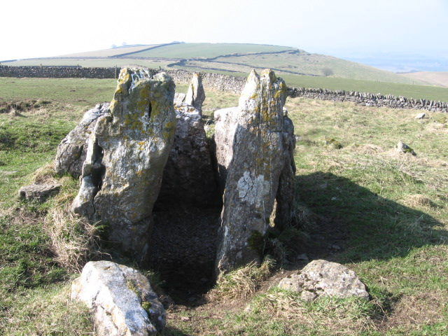 Fivewells Chambered Cairn